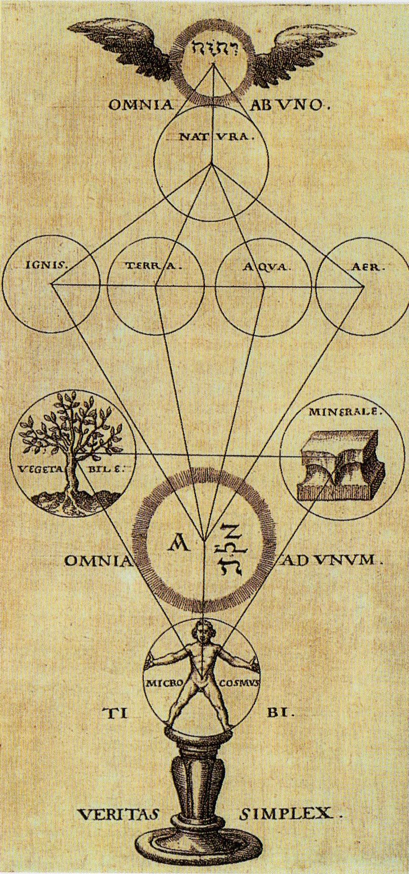 A 17th century depiction of the Rosicrucian concept of the Tree of Pansophia, from an early text of Rosicrucianism "Speculum Sophicum Rhodostauroticum" which published in 1618 by the pseudonymous Theophilus Schweighardt Constantiens, believed to be Daniel Mögling (1596–1635).